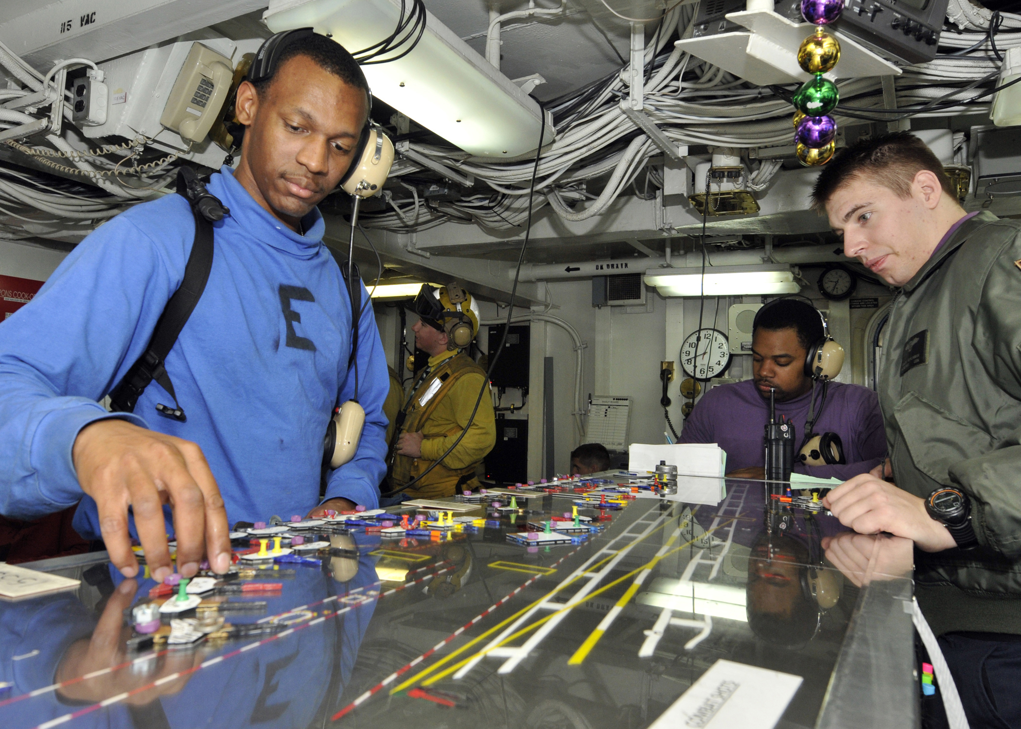 ARABIAN SEA (Jan. 26, 2011) Aviation Boatswain's Mate (Handling) Airman Allen Labon, from Madison, Ga., positions aircraft on the Ouija board in the flight deck control center aboard the aircraft carrier USS Abraham Lincoln (CVN 72). The Abraham Lincoln Carrier Strike Group is deployed in the U.S. 5th Fleet area of responsibility in support of maritime security operations and theater cooperation efforts. (U.S. Navy photo by Mass Communication Specialist 1st Class Sarah Murphy/Released)